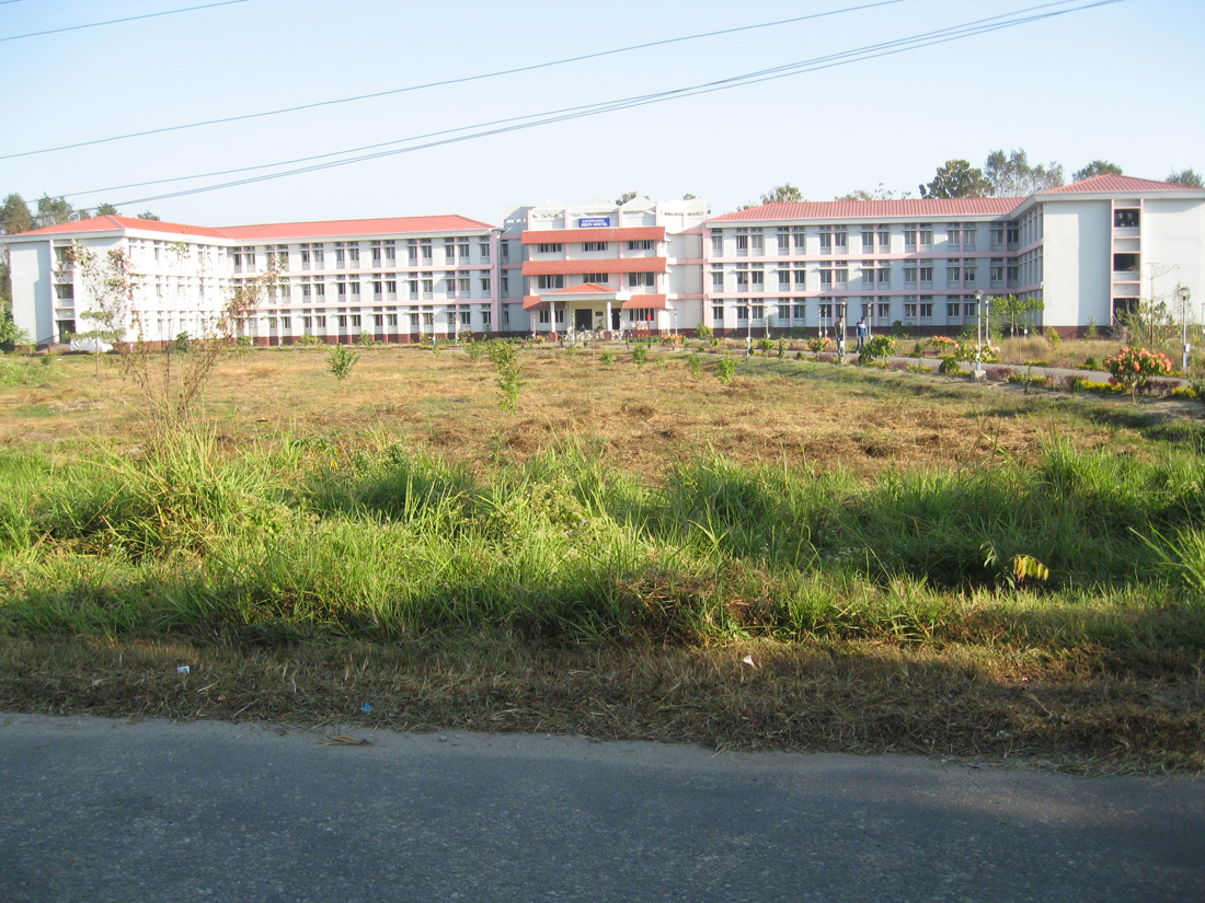 tezpur university